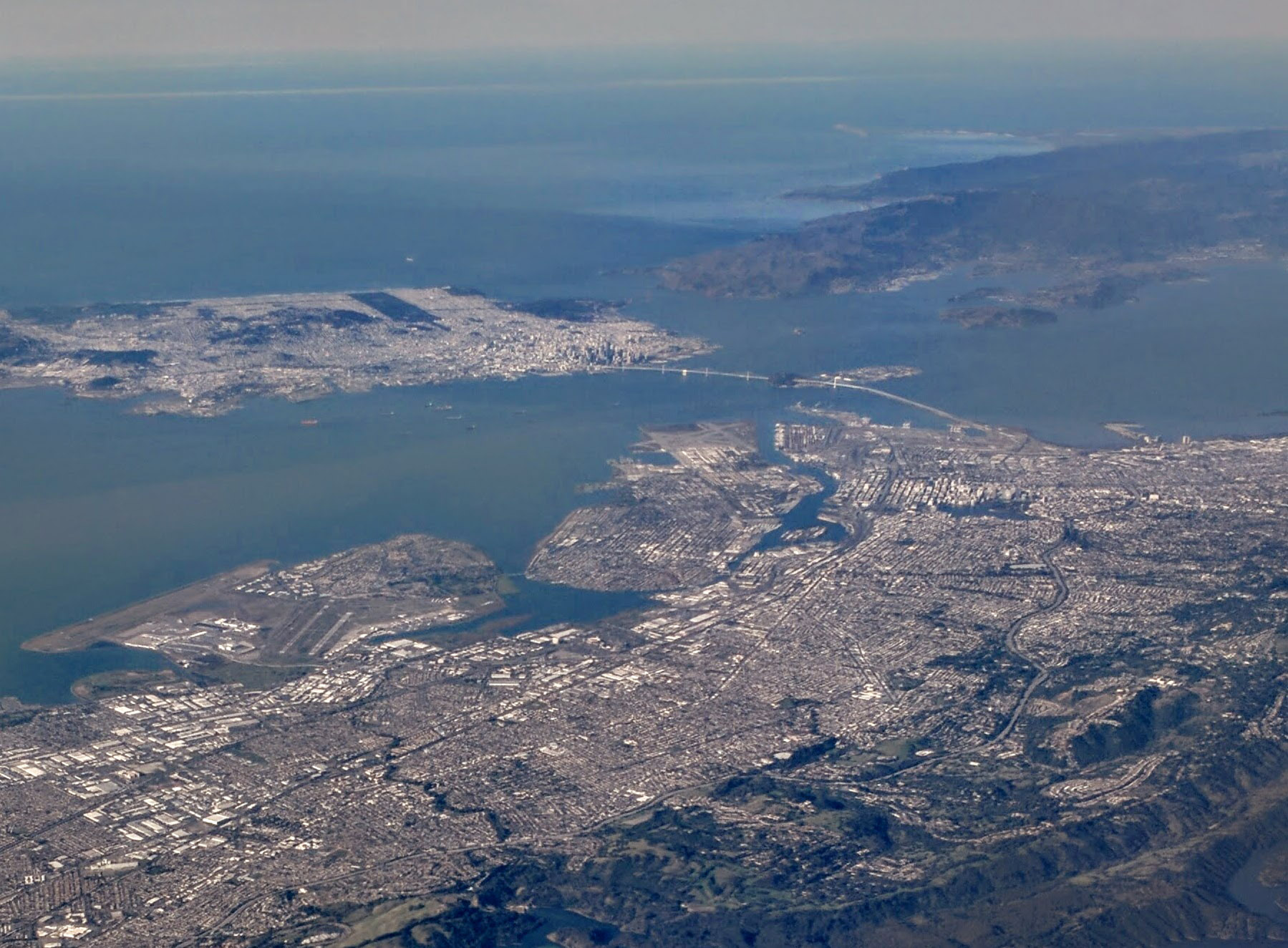 Aerial view of Oakland (foreground), Alameda Island (center), and San Francisco (background left)